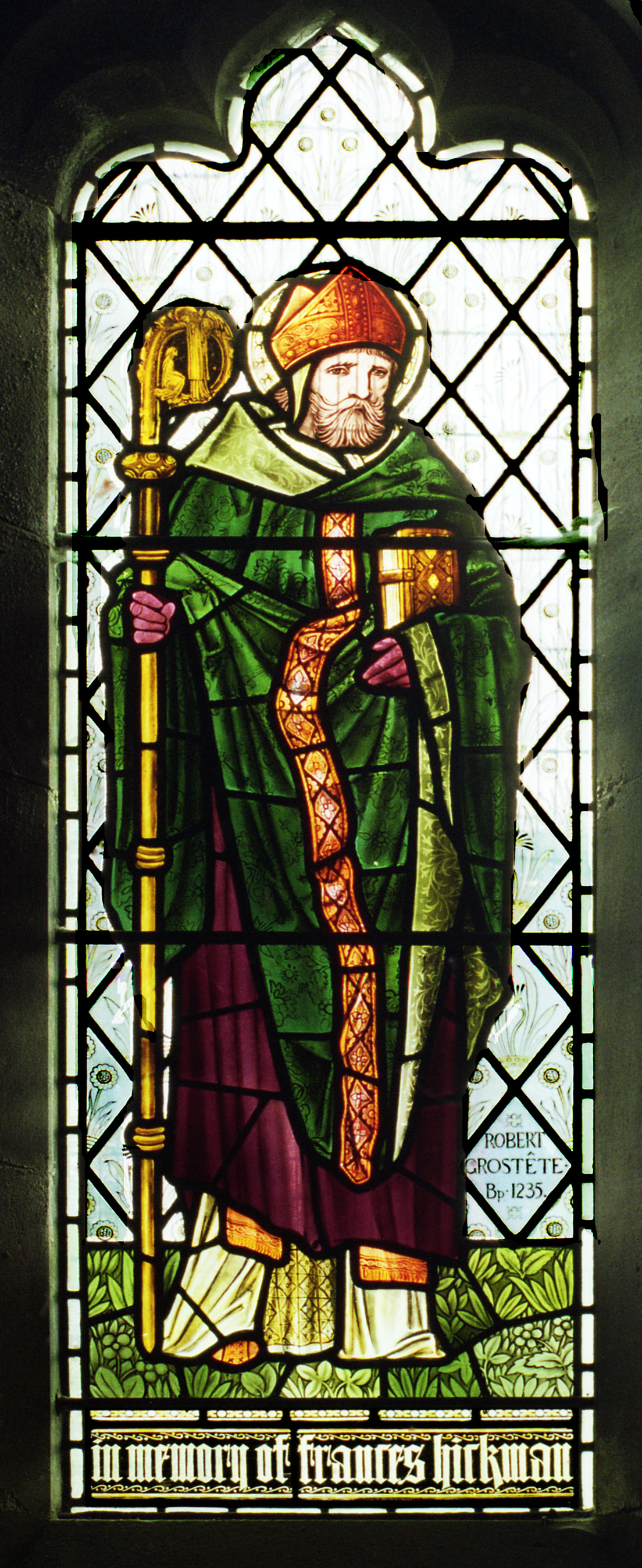 Bishop Robert Grosseteste, window on the South transept Westernmost. St Paul's Parish Church, Morton, Near Gainsborough.